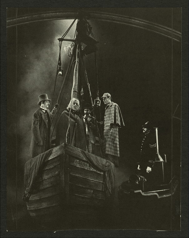 Photograph of The Crucifer of Blood. Courtesy of the New York Public Library Digital Collection.